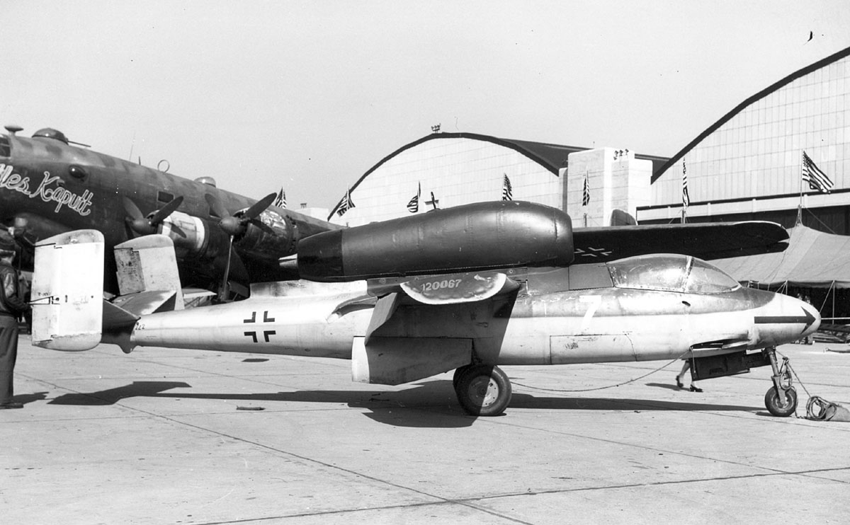 Wright Field October 1945.